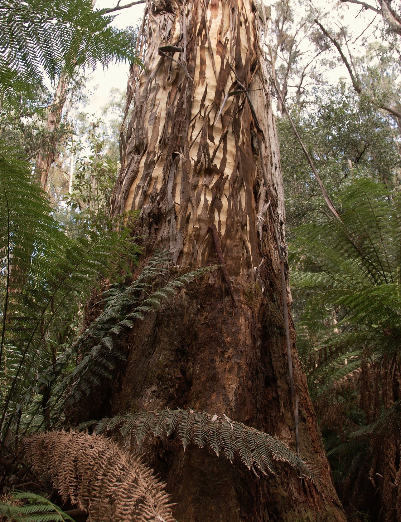 Old growth near Errinundra National Park. Within 5 minutes walk of 37°15′38″S 143°45′22″E / 37.2605°S 143.7562°E